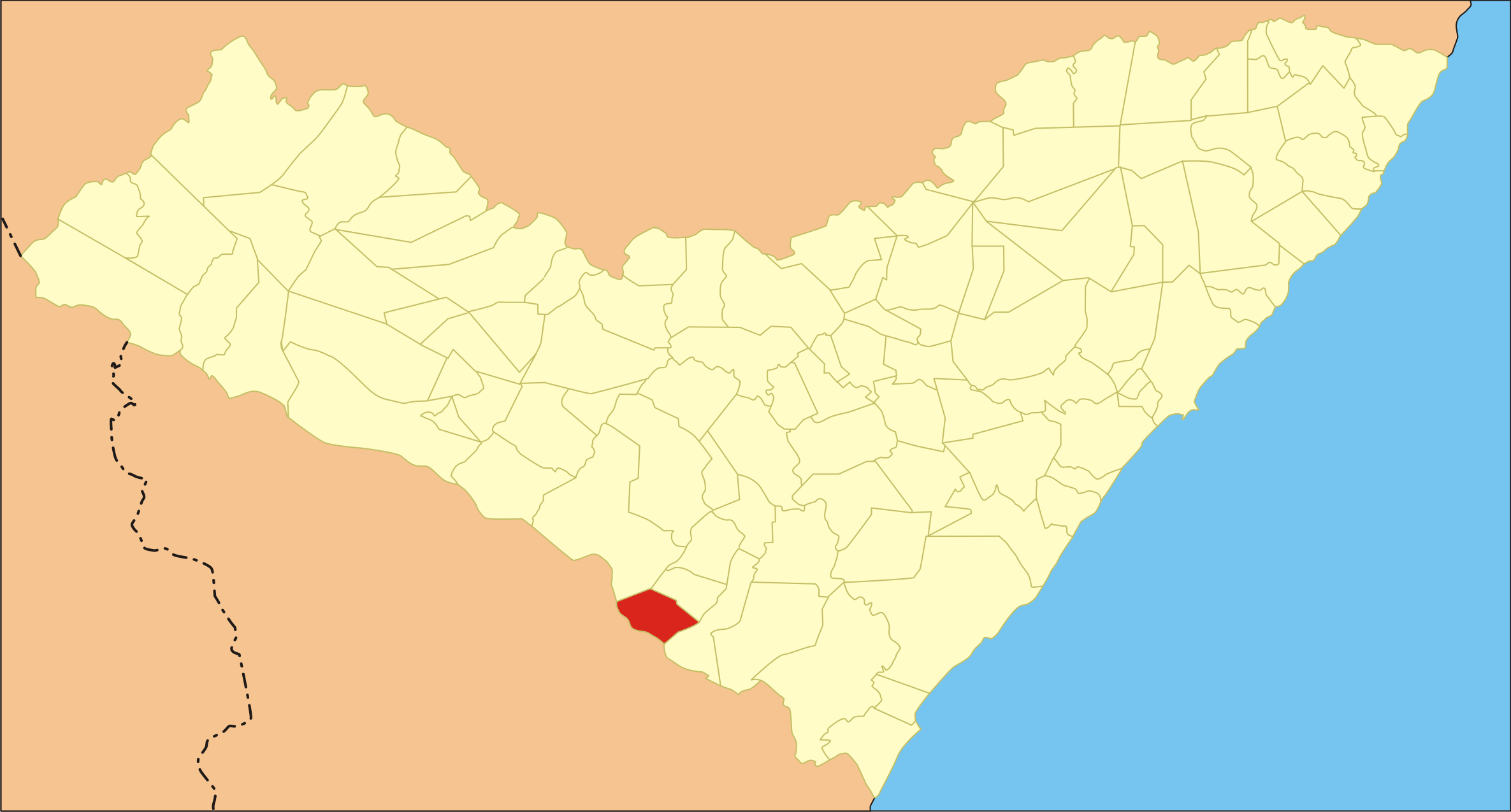 City localization in Alagoas